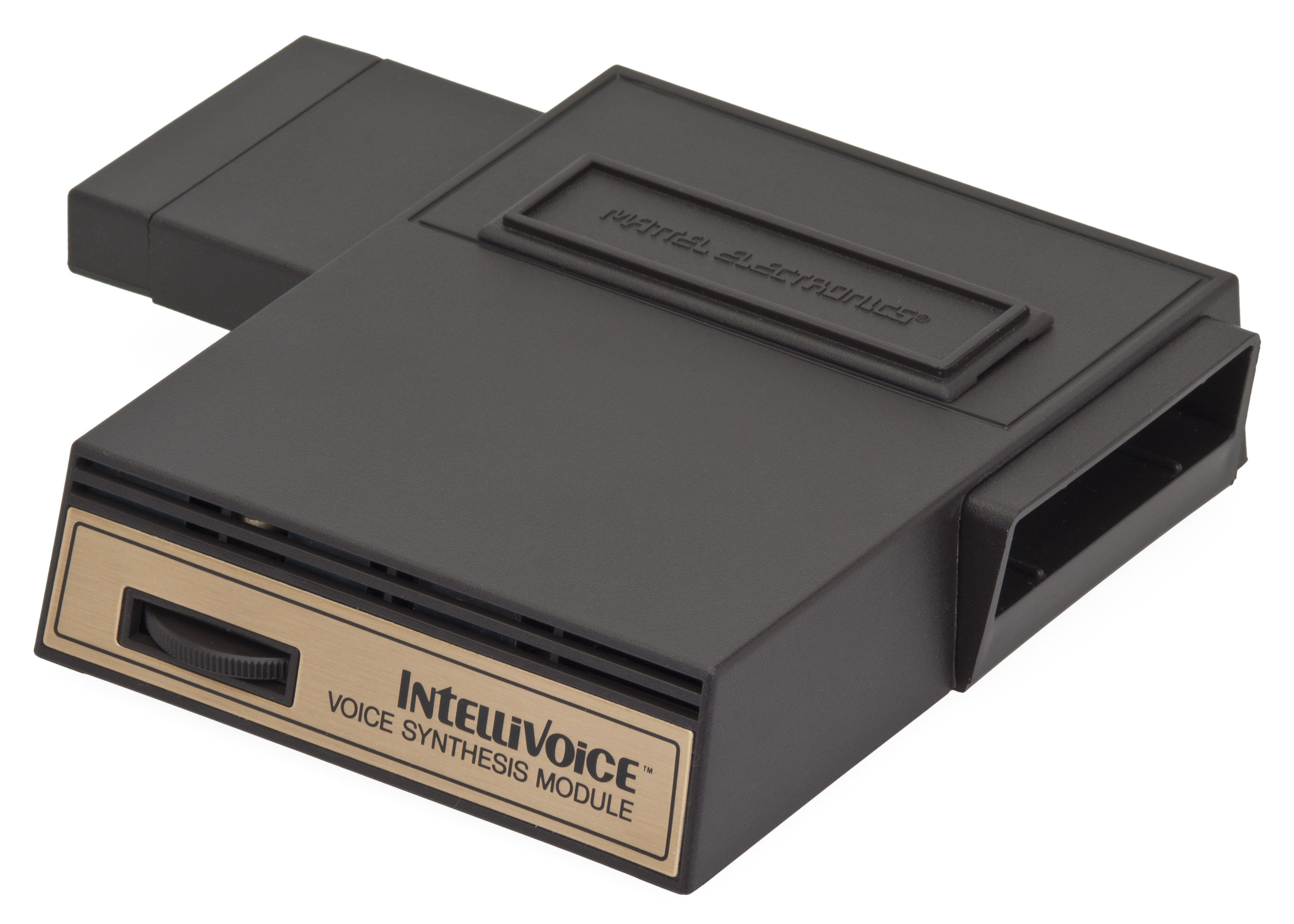 The Intellivoice, a voice-synthesis module that attached to the Mattel Intellivision console and allowed for speech on some games.